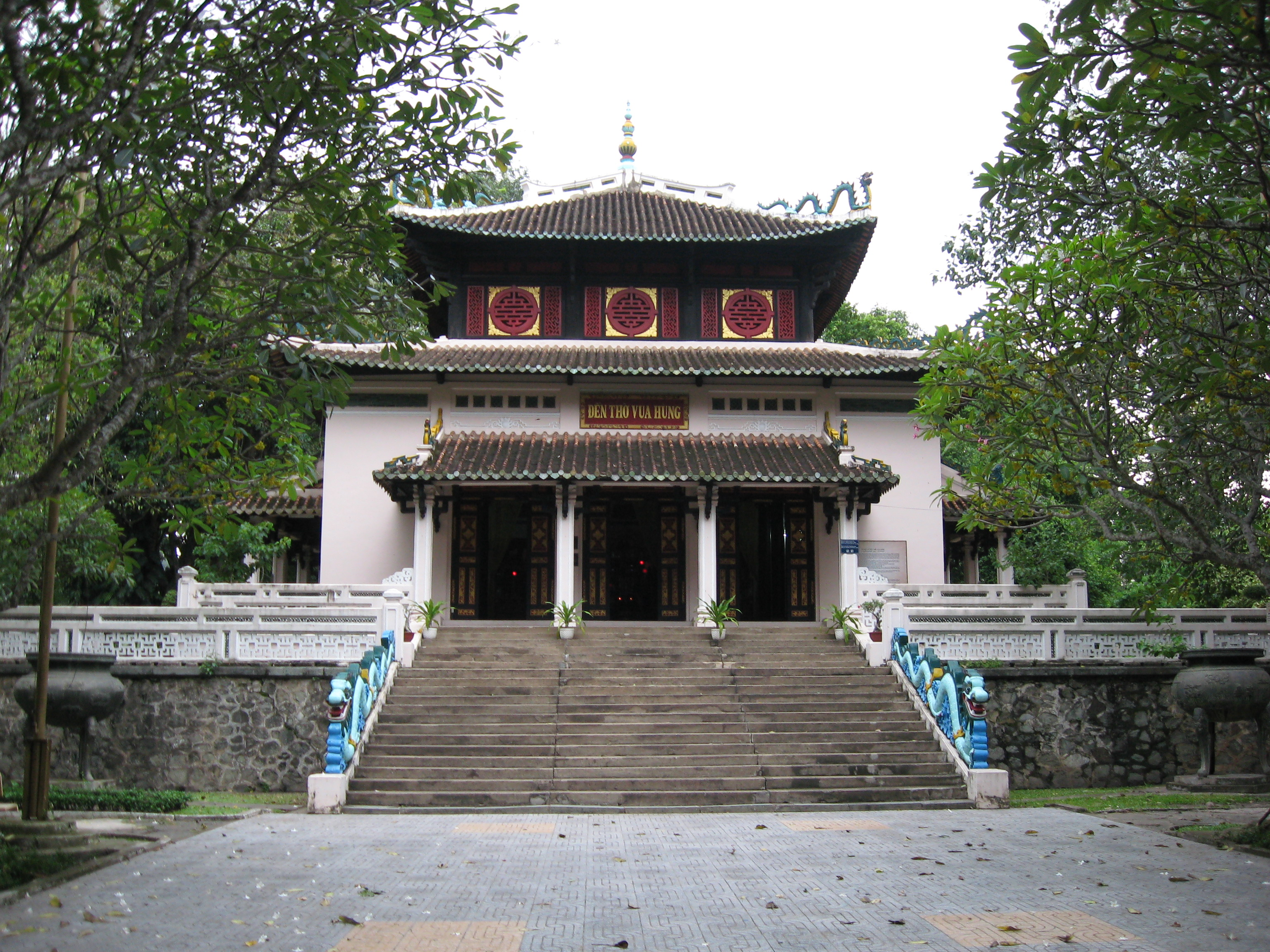 Den Hung, Ho Chi Minh City